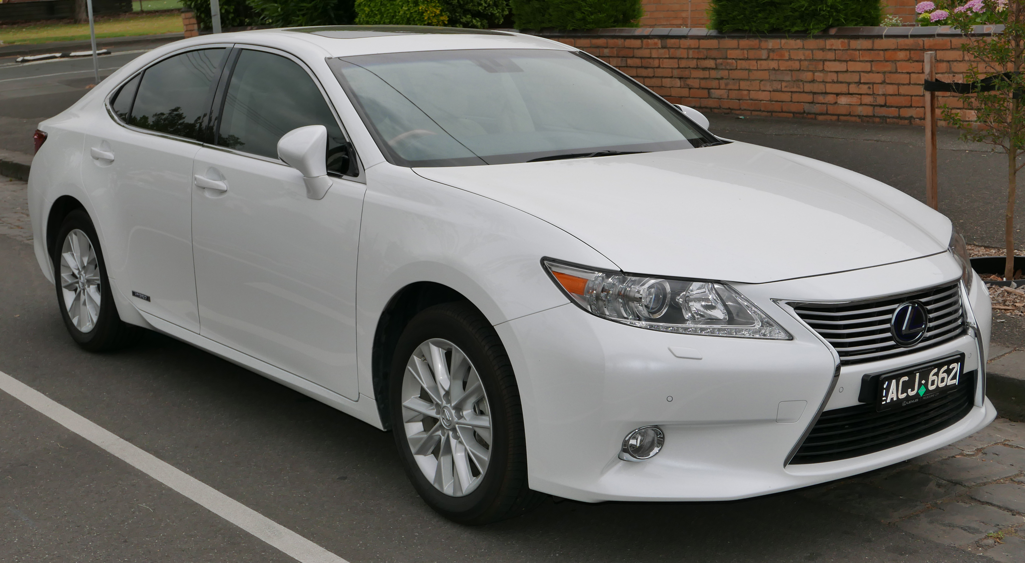 2013 Lexus ES 300h (AVV60R) Sports Luxury sedan. Photographed in Princes Hill, Victoria, Australia. Vehicle registration enquiry resultsJurisdictionVictoriaRegistrationACJ662Chassis codeJTHBW1GG502041985Engine code2AR0975867Compliance date2013-10Year of manufacture2013